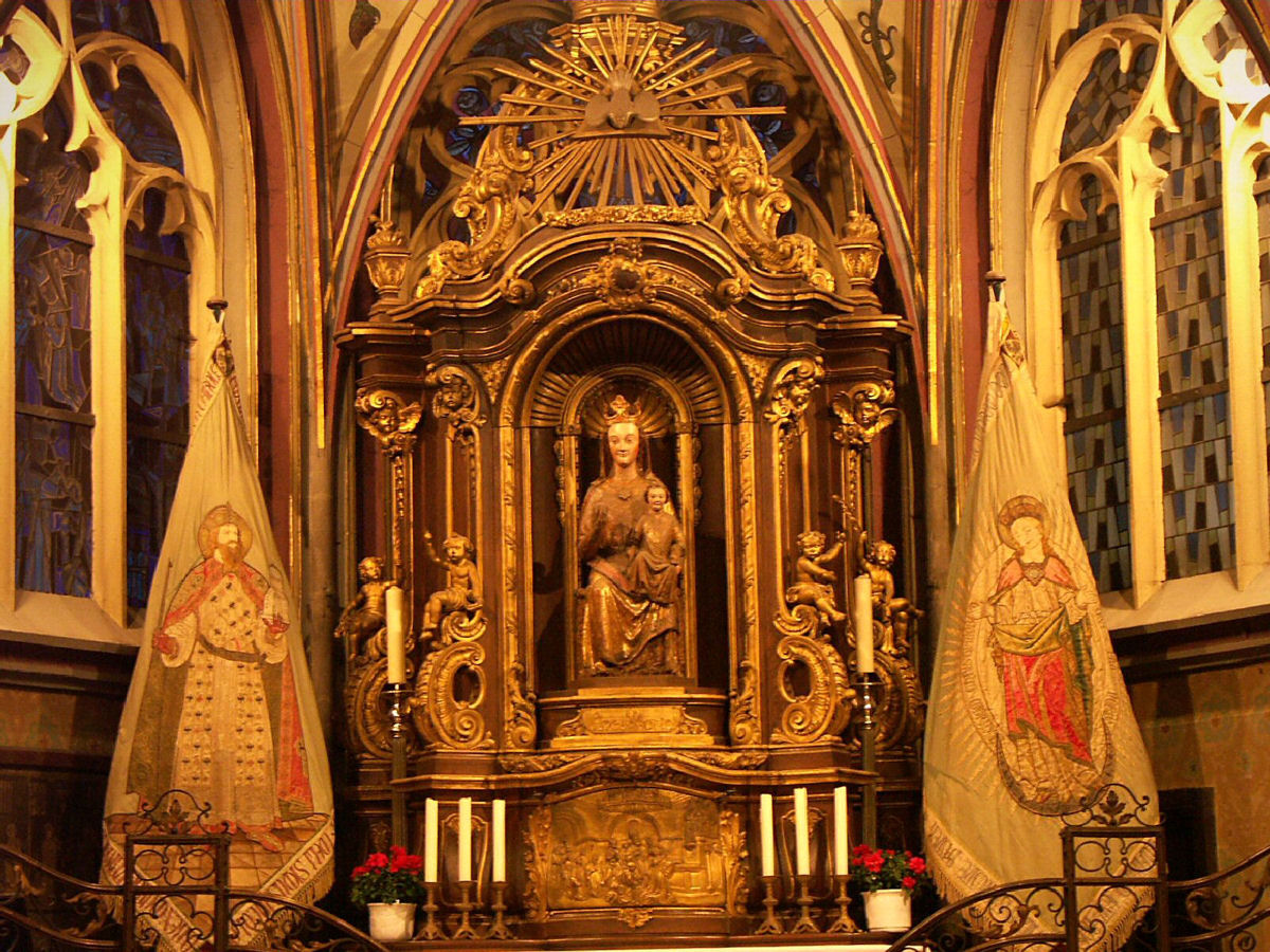 Aachen Cathedral, Aachen, Germany